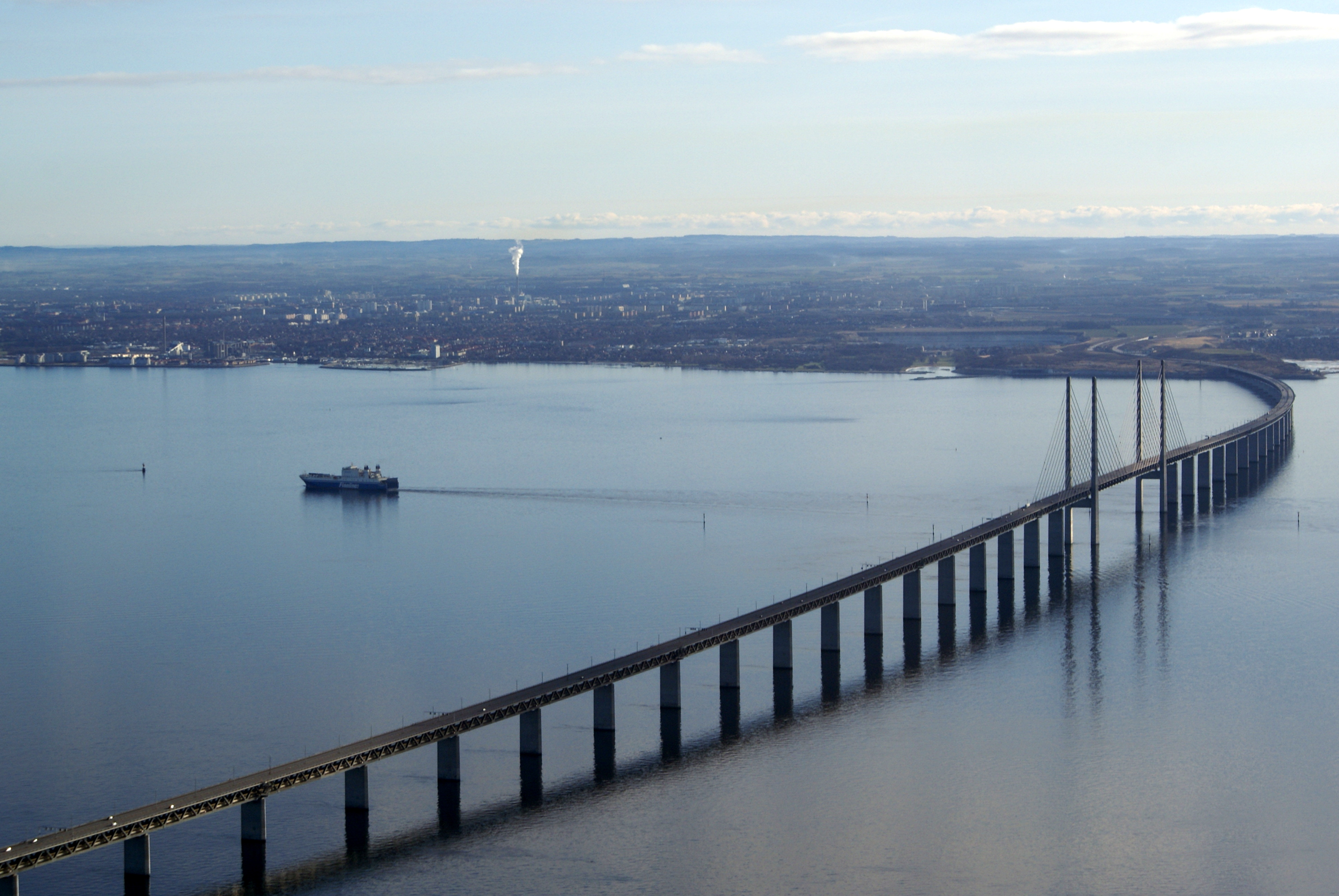 The Øresundbridge, seen from south-west.